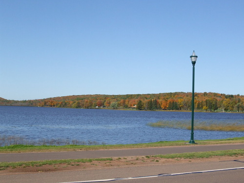 Sunday Lake in Fall